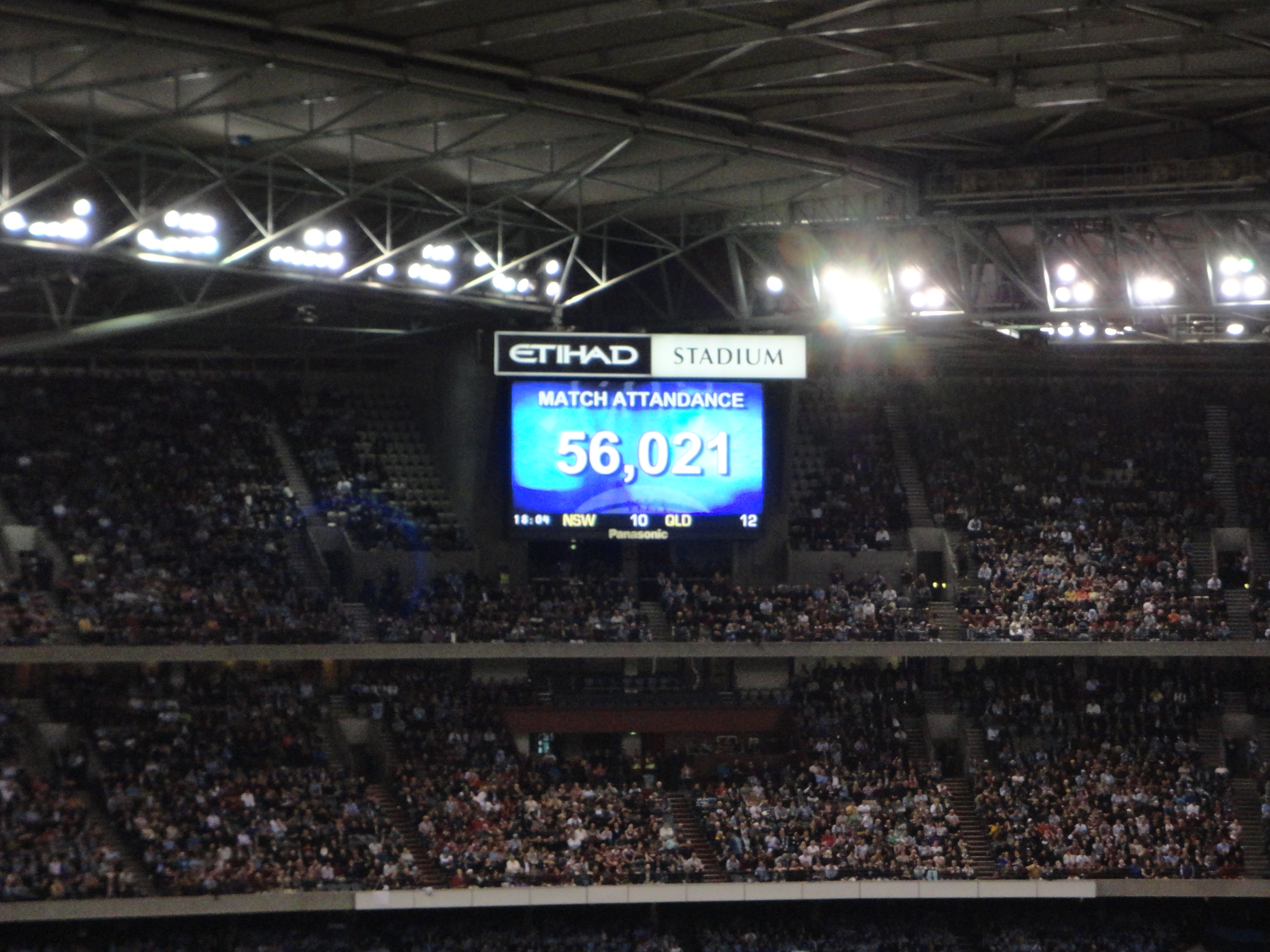 Largest rugby league attendance at Docklands Stadium in Melborune. 56,021 people attended the May 23rd, 2012 State of Origin game between Queensland and New South Wales.